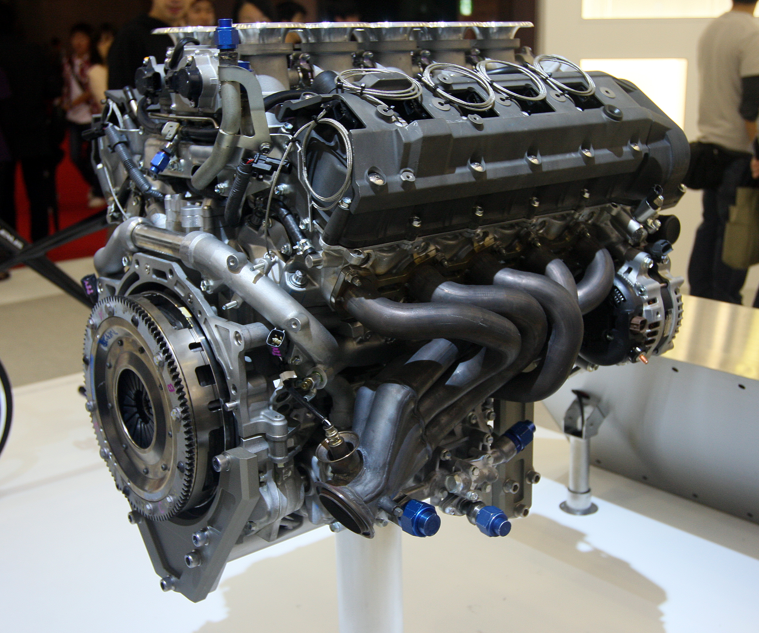 Lexus LF-A Production Prototype engine for development by Yamaha and Toyota. (later, the name "Toyota 1LR-GUE" was announced) 4,805cc V10 engine (72 degrees), DOHC